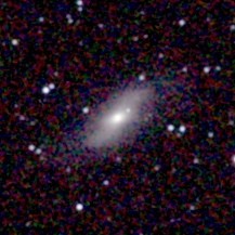 2MASS image of NGC 4744.